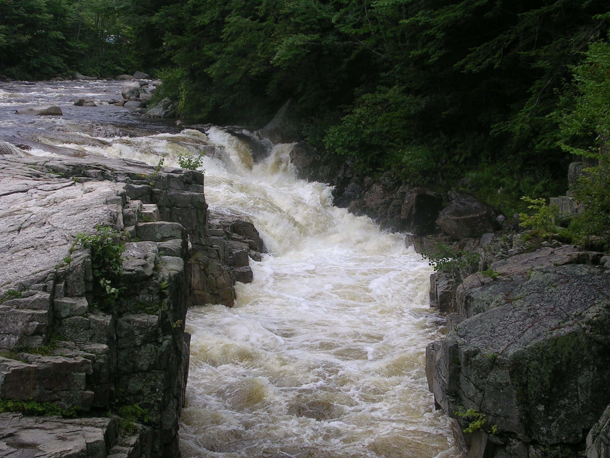 The Rocky Gorge in The White Mountain State Park.